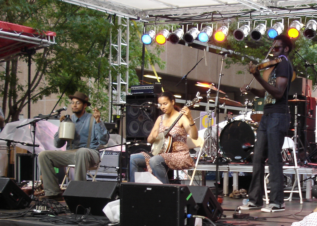 The Carolina Chocolate Drops performing at the City Stages Festival, in Birmingham, Alabama, United States. From left to right: Dom Flemons, jug; Rhiannon Giddens, 5-string banjo; Justin Robinson, fiddle. Photo taken with a Sony DSC-W1 digital camera.